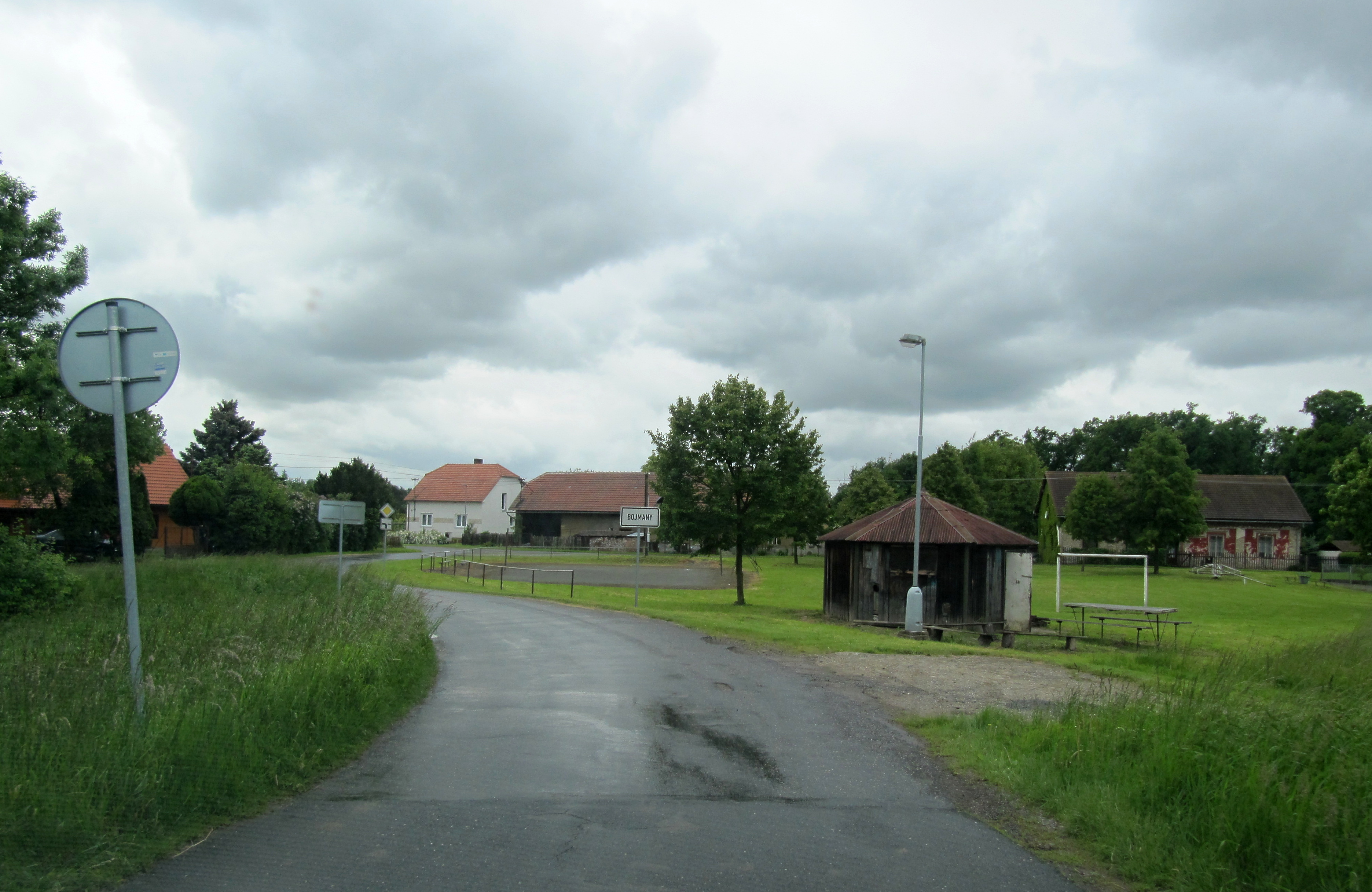 Žehušice, Kutná Hora District, Czech Republic, part Bojmany. Driveway to the village from Žehušice.